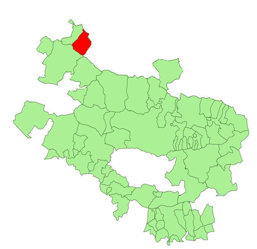 Llodio municipality in the province of Álava (Spain)